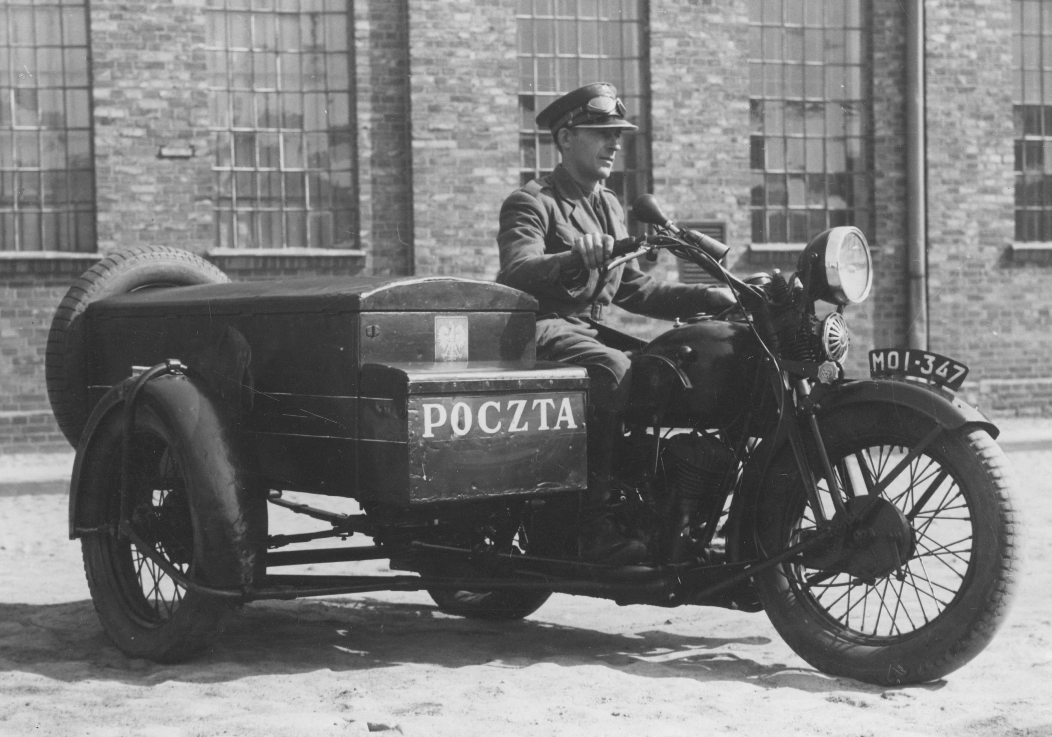 Polish postman on Sokół 1000.